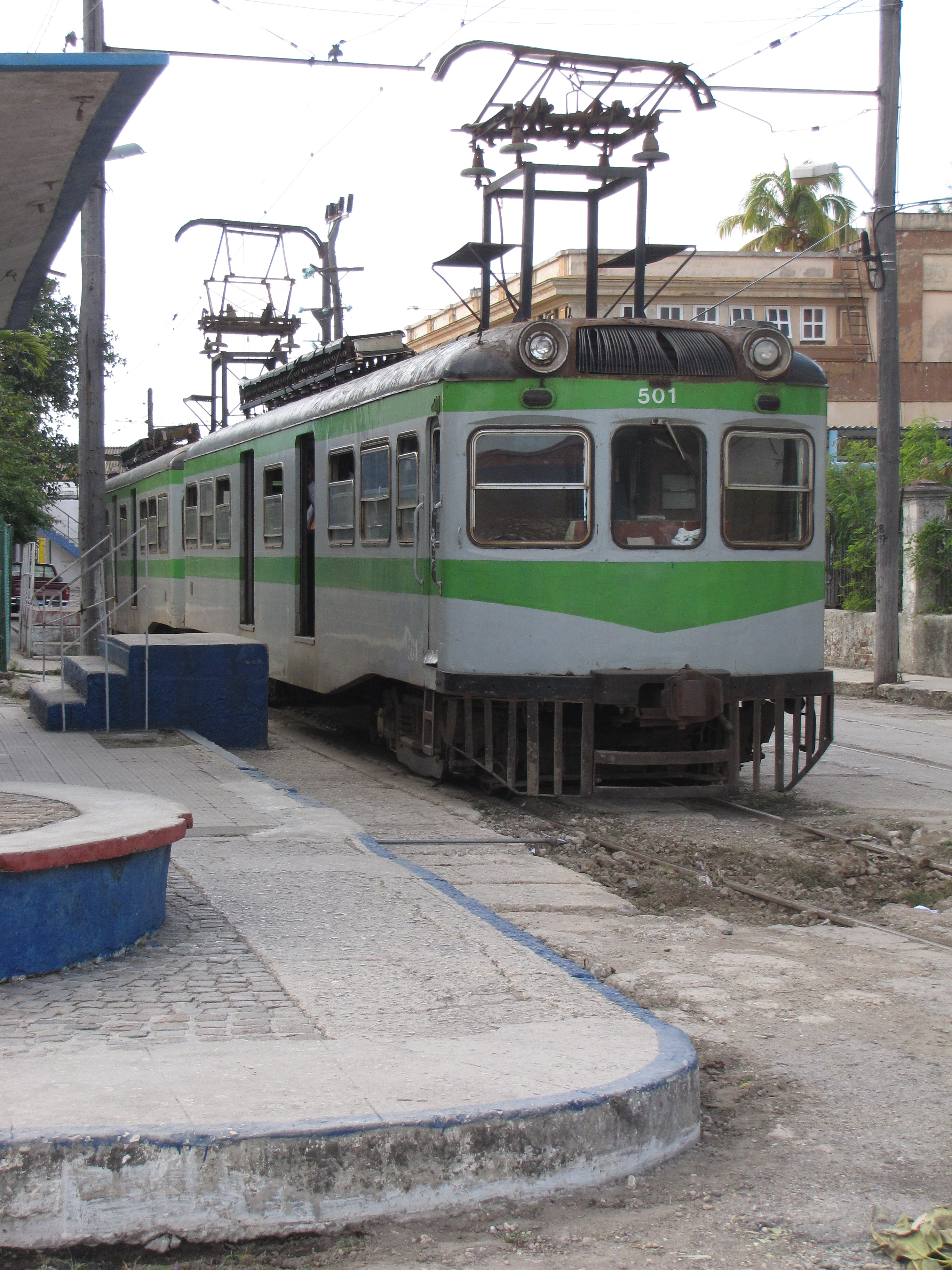 Ex Catalan railcars standing at Havana Casablanca Station